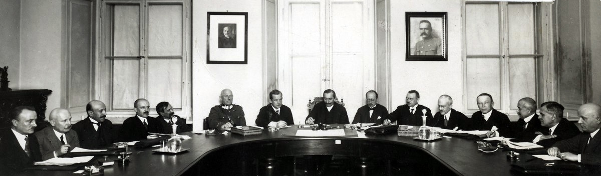 Polish cabinet under presidency of Wincenty Witos 1923